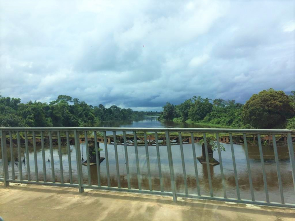 The image represents a capture of the Nyong river in the South of Cameroon. The photo was taken on the road between Yaoundé and Ebolowa. This is an image with the theme "Africa on the Move or Transport" from: Cameroon